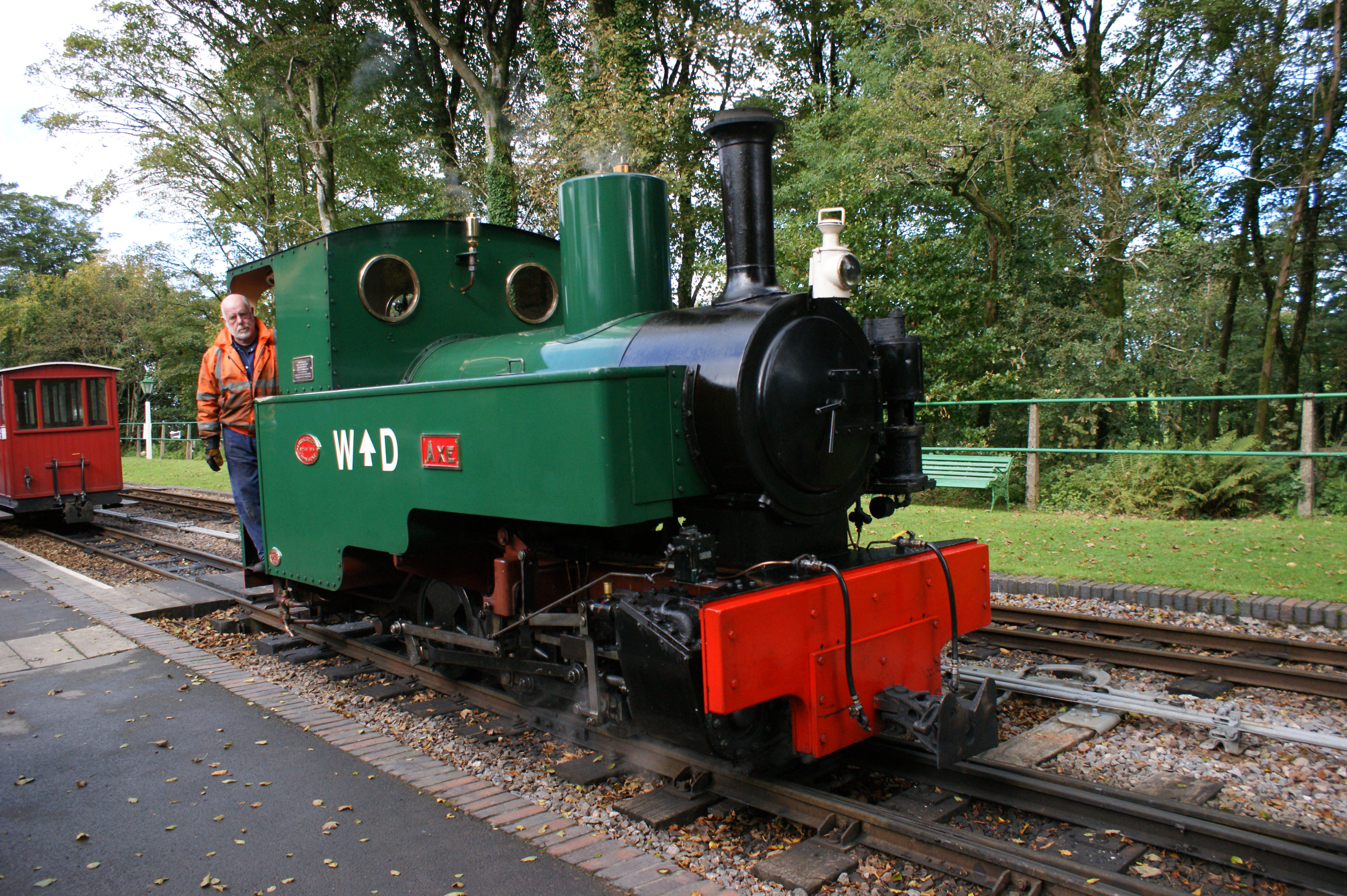 Kerr Stuart 0-6-0T No.2451 of 1915, originally built for the War Department to take supplies, ammunition and troops to the trenches of the Western Front in WWI, now running on the 1'11.5" gauge Lynton & Barnstaple Railway as their "Axe", though in WD livery. The photograph shows it running around its train at Woody Bay station, 09/12.